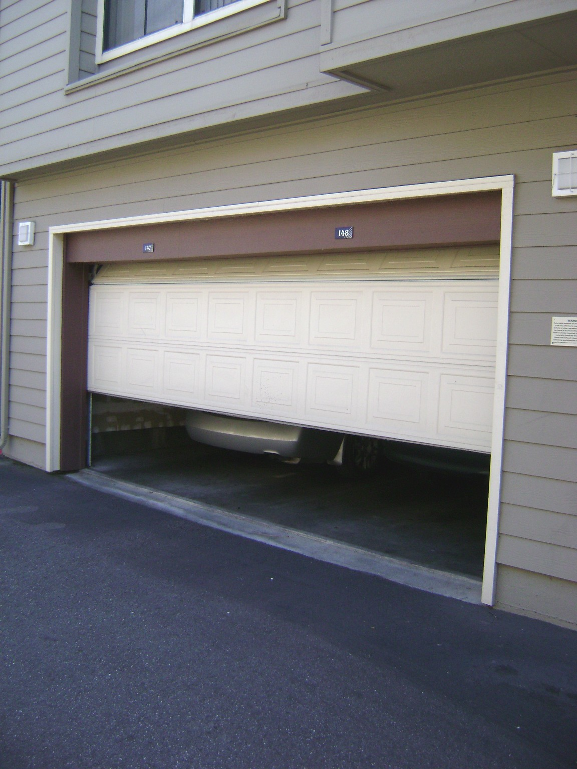 Illustration of a garage door.